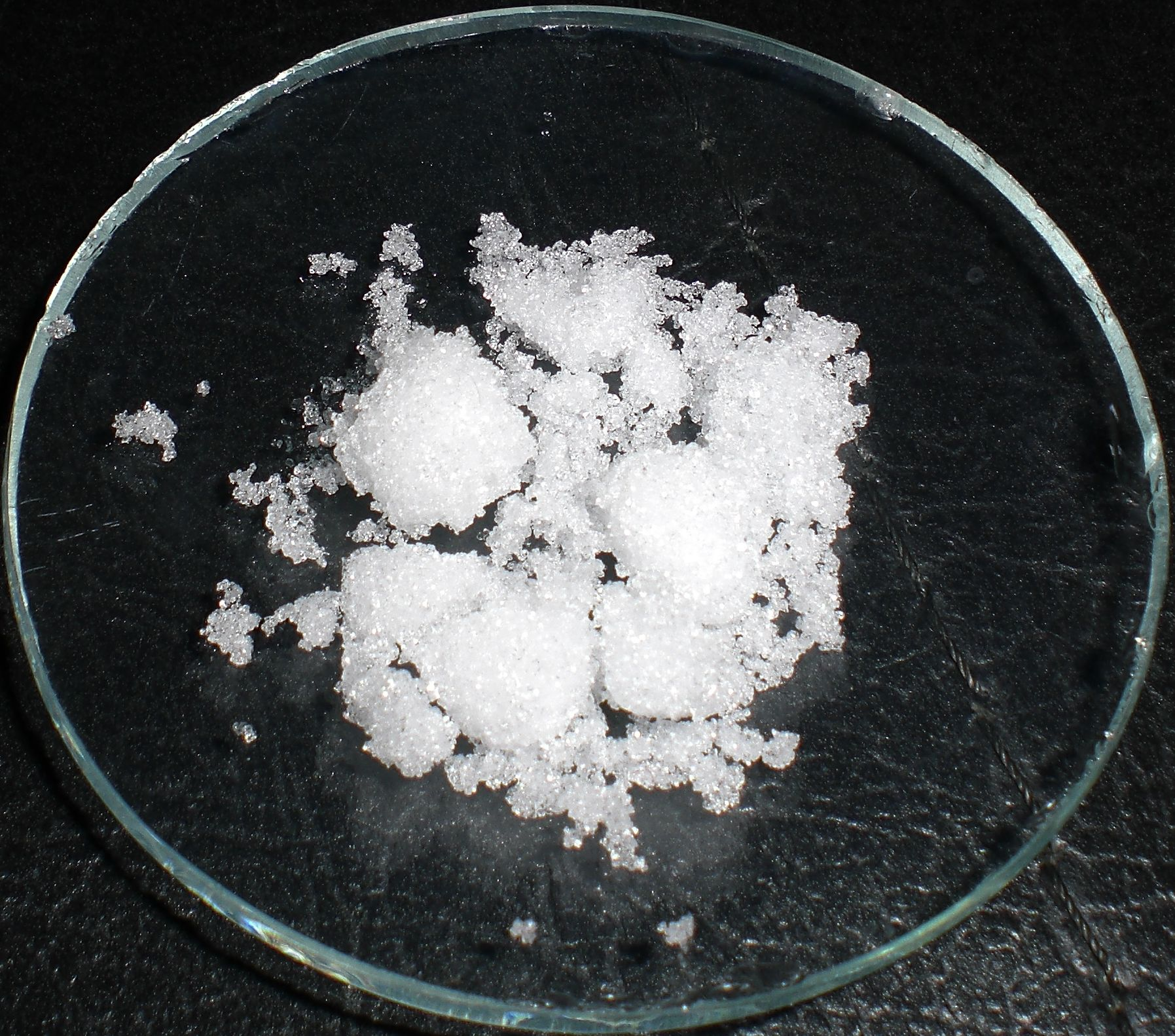 picture of sodium bisulfate